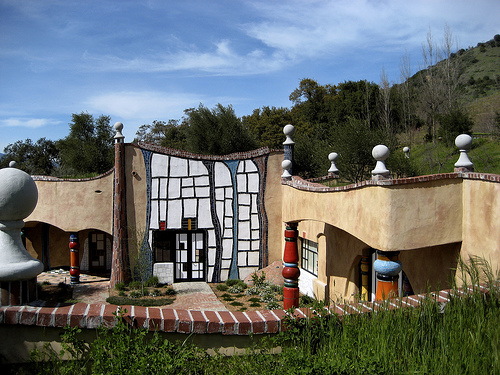 It's also somewhat Calder-esque.